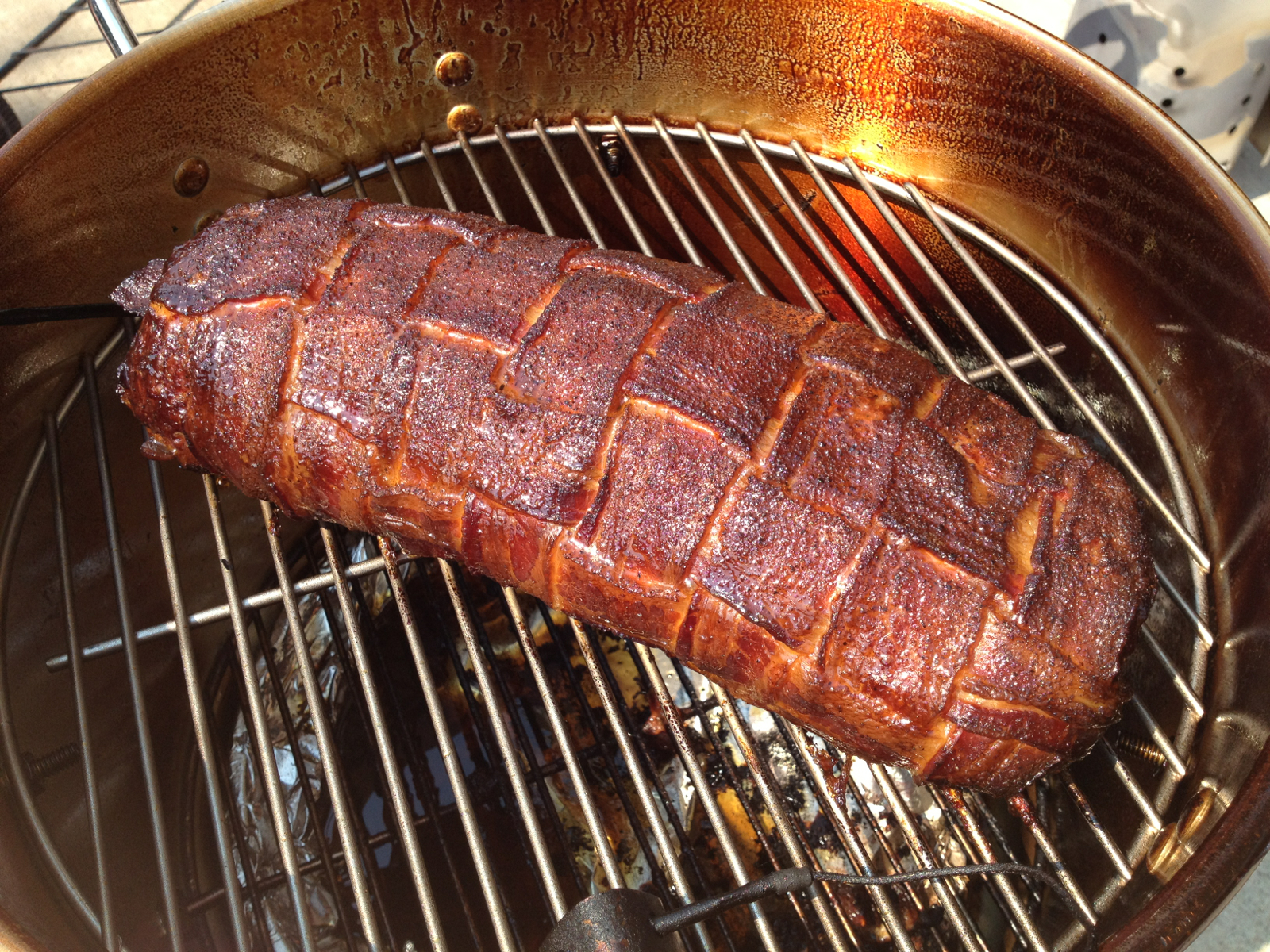 Five hours later we have pork on pork in pork.